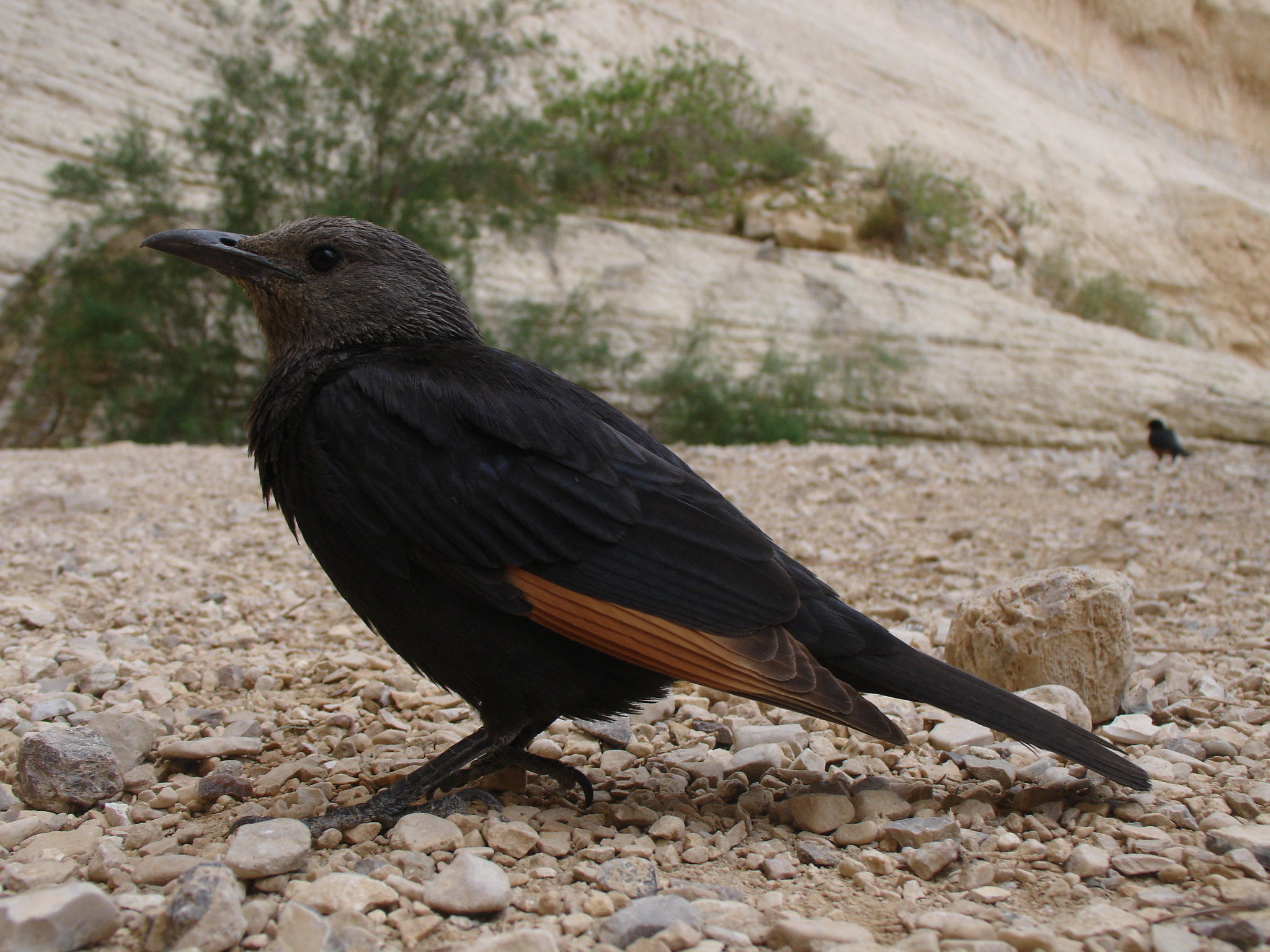 a close up of tristramii, taken in Ein-Mishmar, Israel